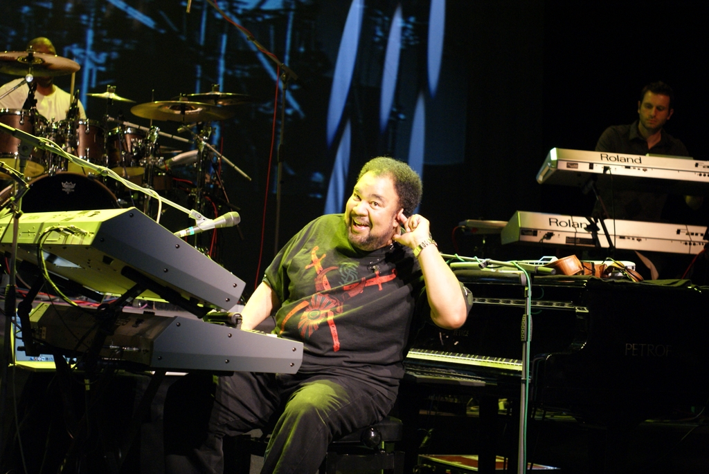 George Duke performing on keyboard in 2010.